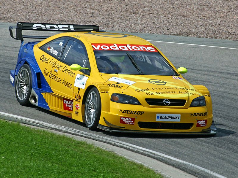 Manuel Reuter, Opel, DTM on Sachsenring Circuit.